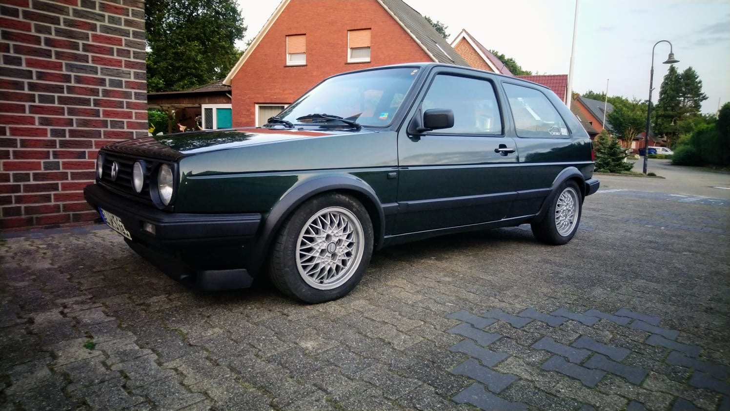 Golf II GT special